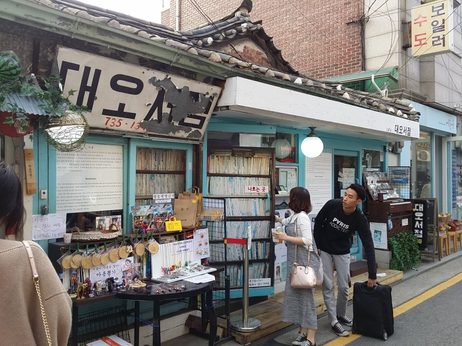 Seochon histroic site Dae-o Bookstore